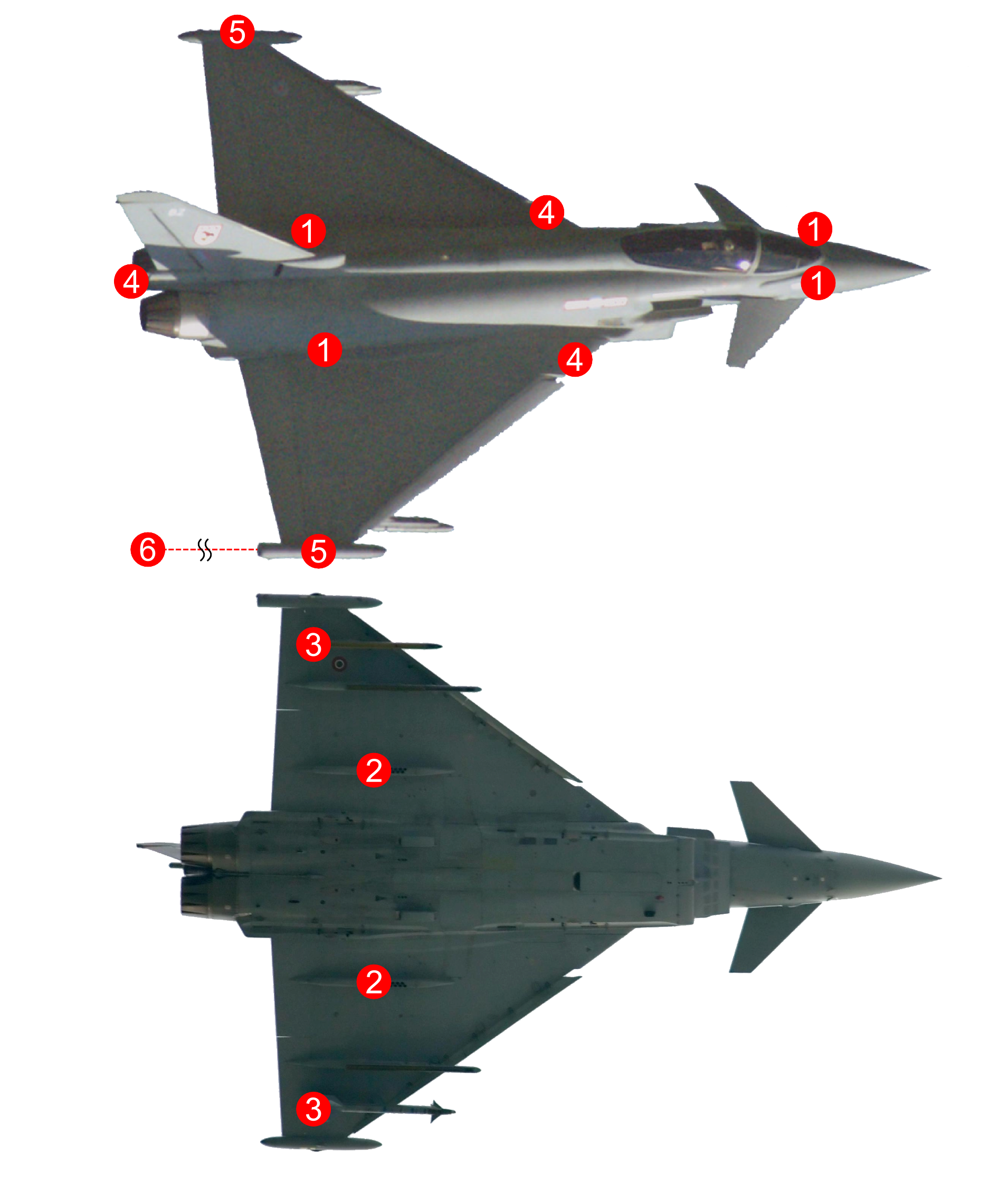 Eurofighter Typhoon's Defensive Aids Sub System (DASS). References: and . 1. Laser warners 2. Flare launchers (IR decoys) 3. Chaff dispensers 4. Missile warners 5. Wingtip pods for ESCM 6. Towed decoy